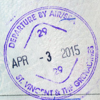 Saint Vincent and the Grenadines tourist exit stamp 2015